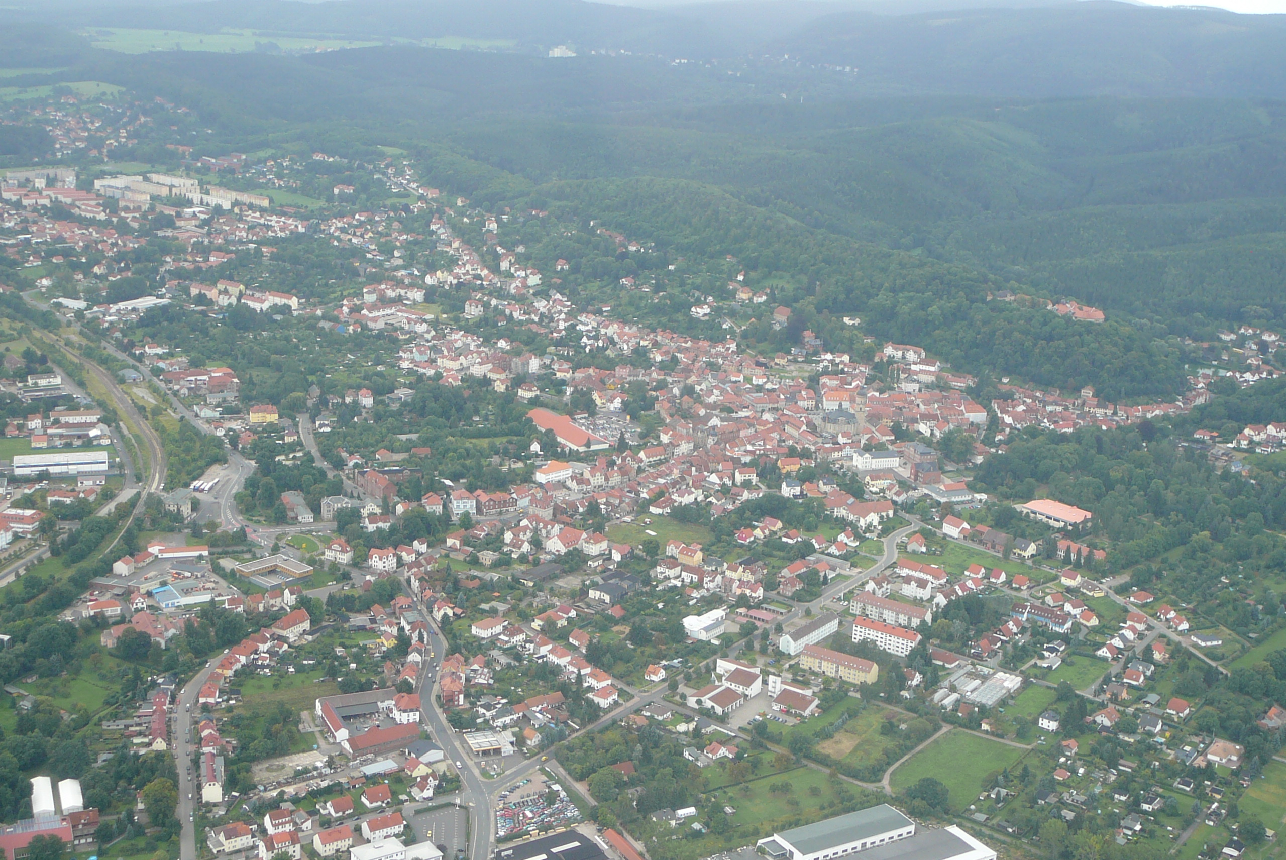 Aerial view of the town of Waltershausen, Germany.